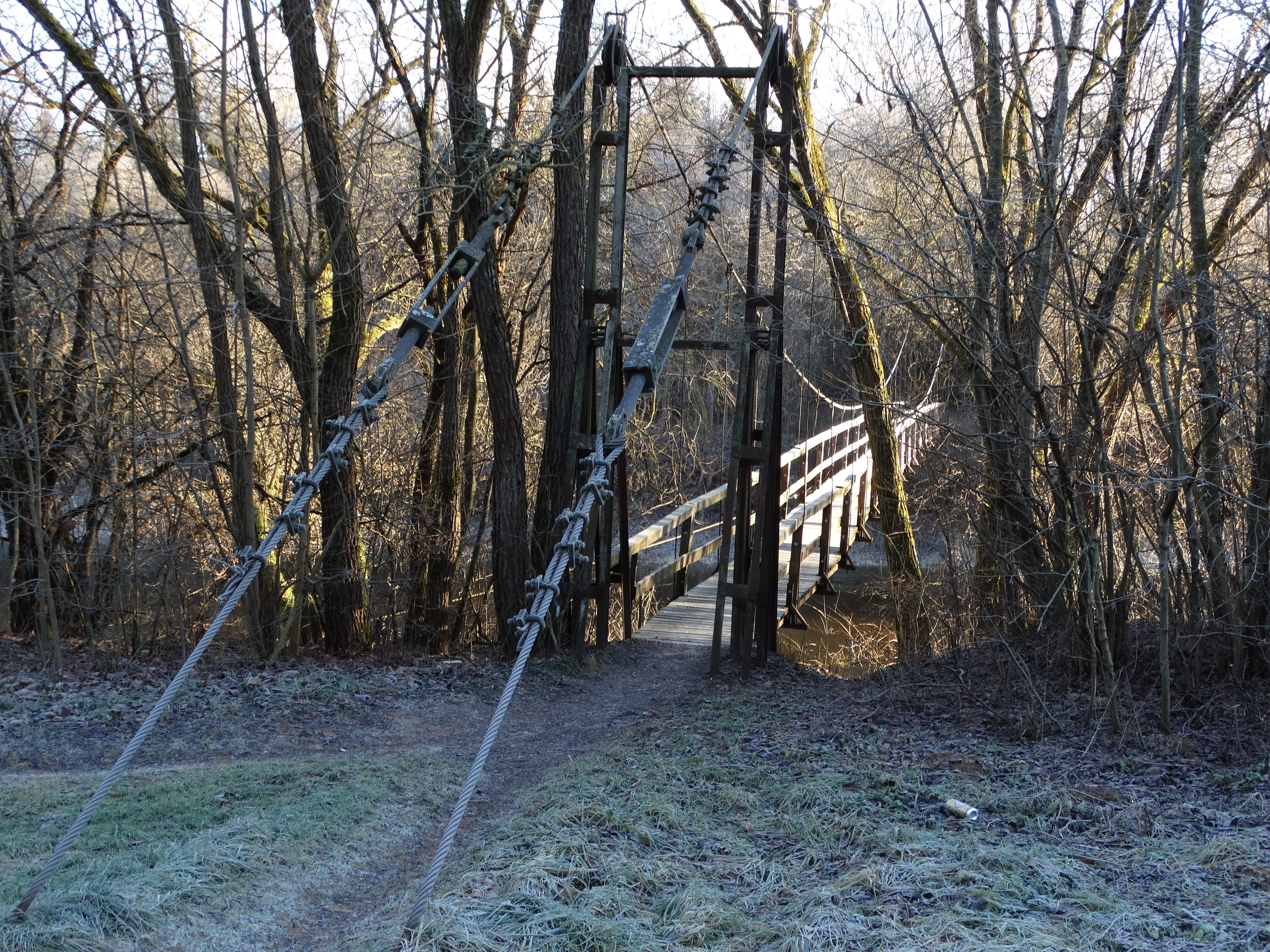 Suspension footbridge on Nevėžis River, Surviliškis, Kėdainiai district, Lithuania